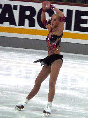 Arina Martinova performs an outside spread eagle during her free skate at the 2007 Nebelhorn Trophy.